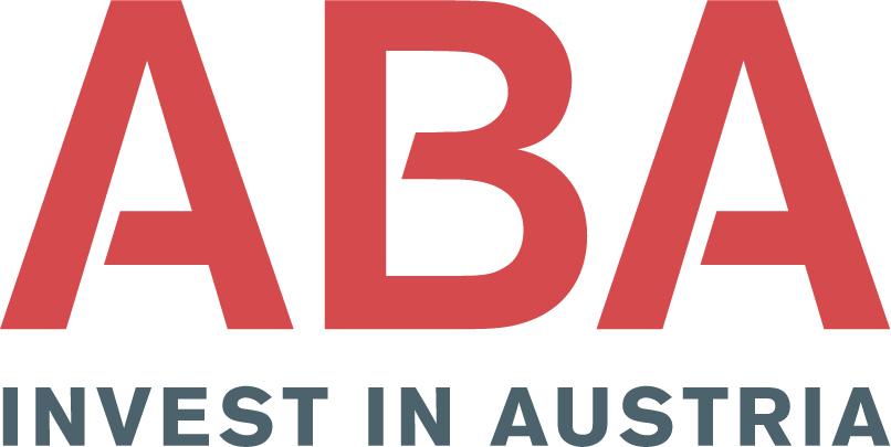 Logo of ABA-Invest in Austria